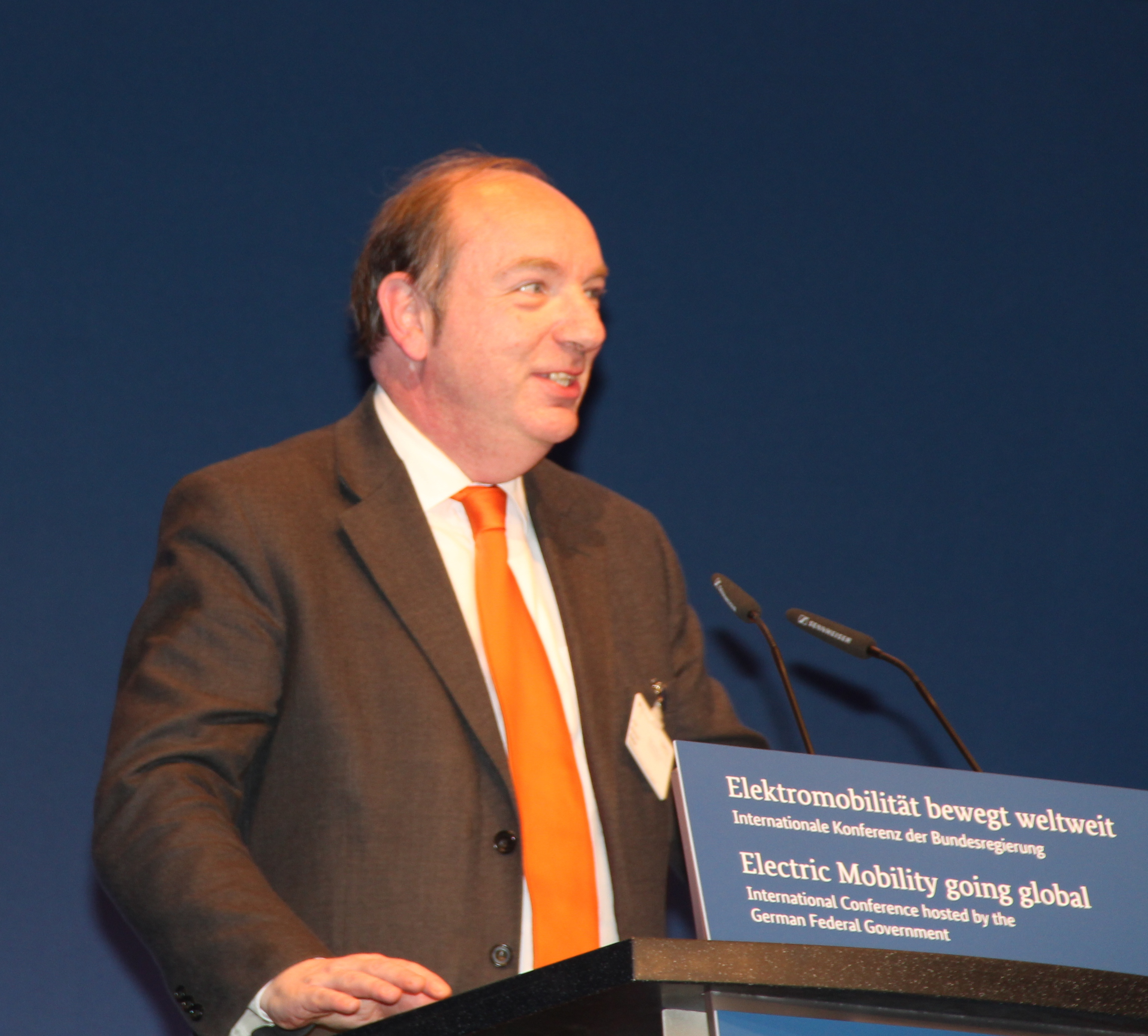 Norman Baker, Parliament State Secretary of Traffic Ministery UK